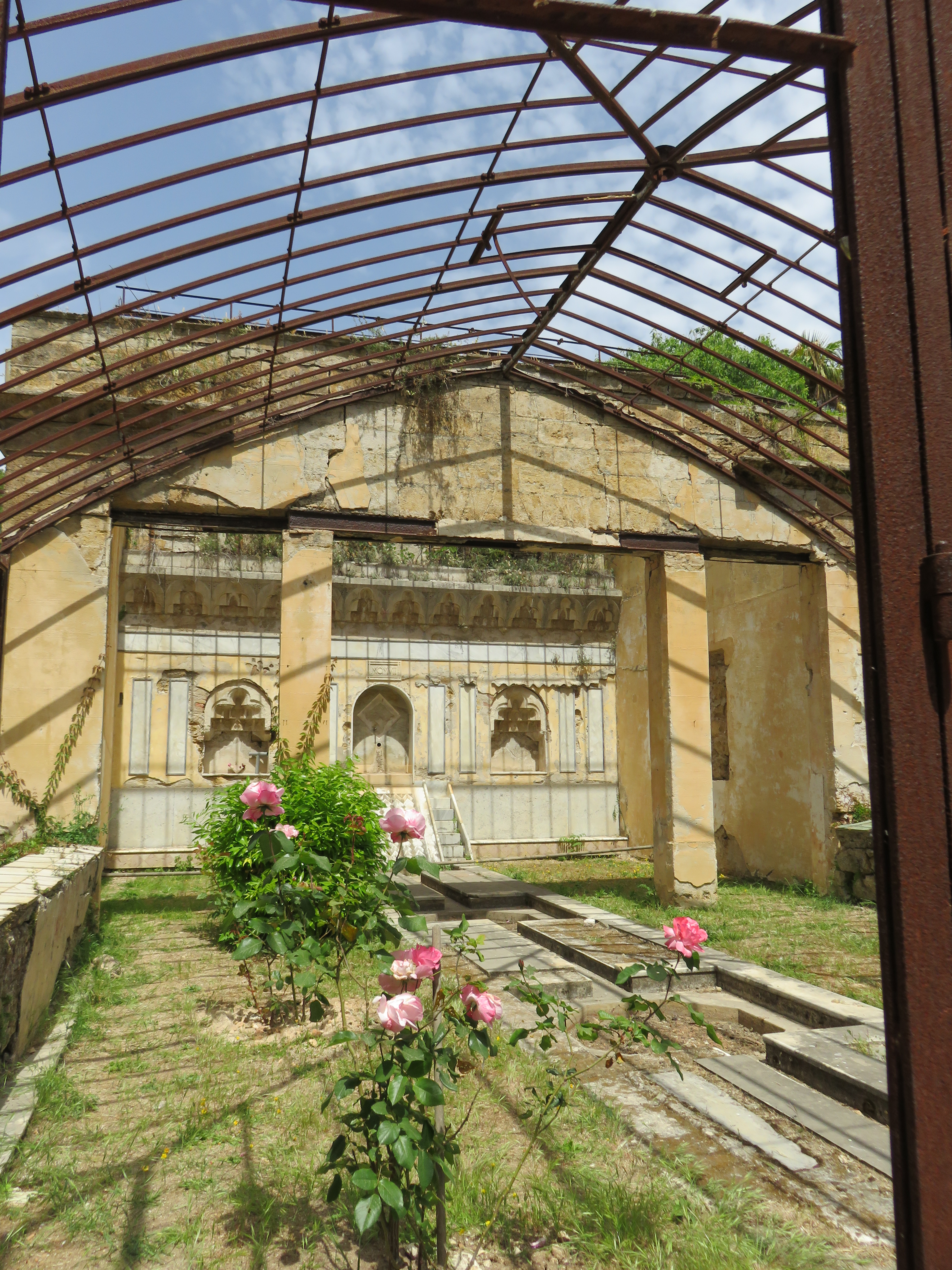 Greenhouse of Villa Sofia in Palermo, Sicily